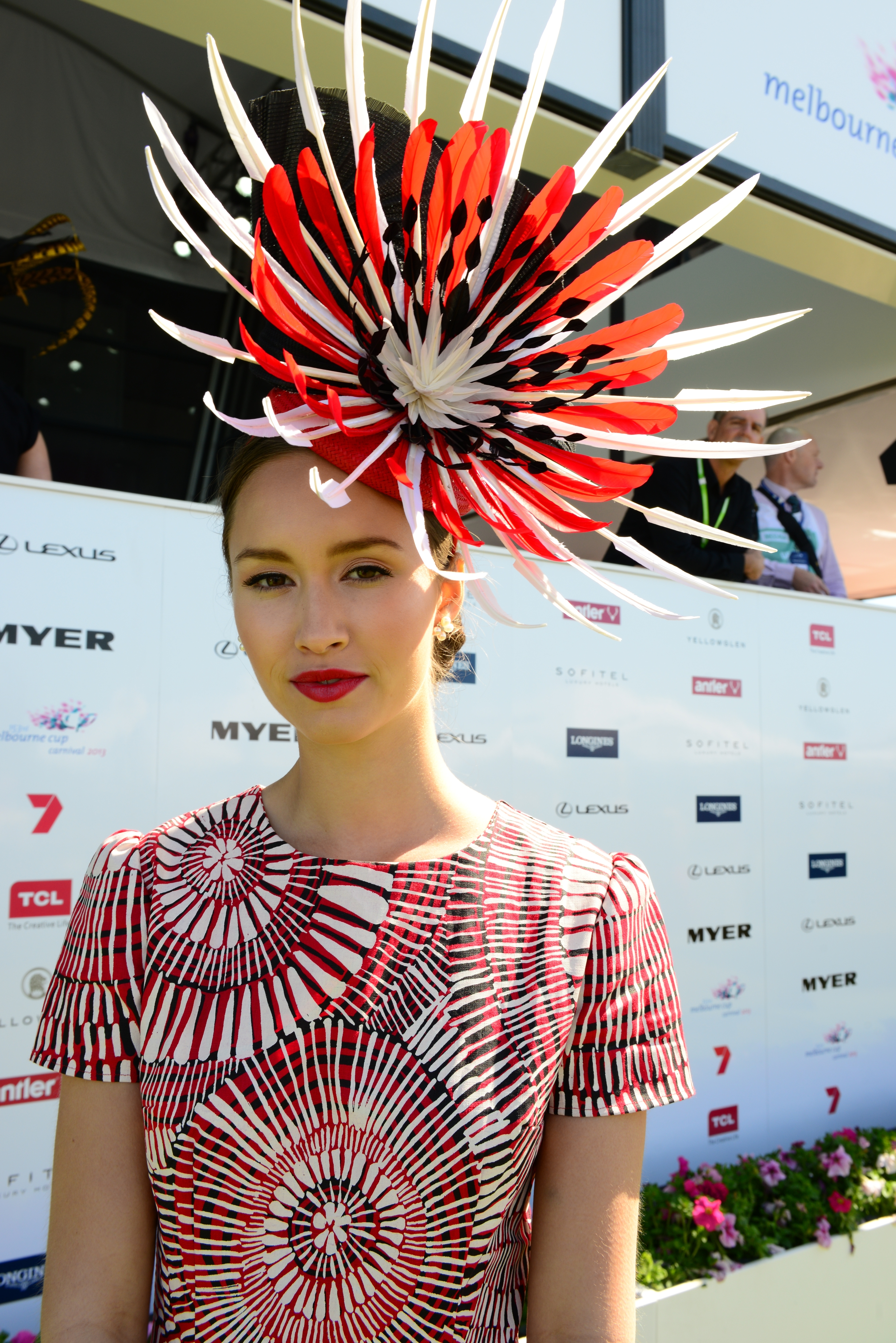 Chloe Moo prior to the competition starting. The material for her dress was designed by an Aboriginal woman from Daly River in the Northern Territory, and her outfit was locally designed. The red and white dress used fabric that was screen printed by Merrepen Arts at a community south of Darwin. Her mother, fashion designer Jo Moo, designed her dress and had it sewn at Darwin store Raw Cloth. Chloe's matching fascinator was created by Melissa Cabot at Monsoon Millinery. Source : ABC News